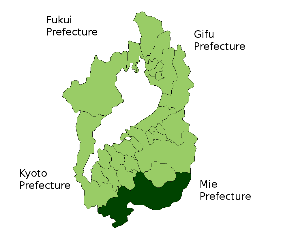 Location Map of Koka in Shiga Prefecture, Japan